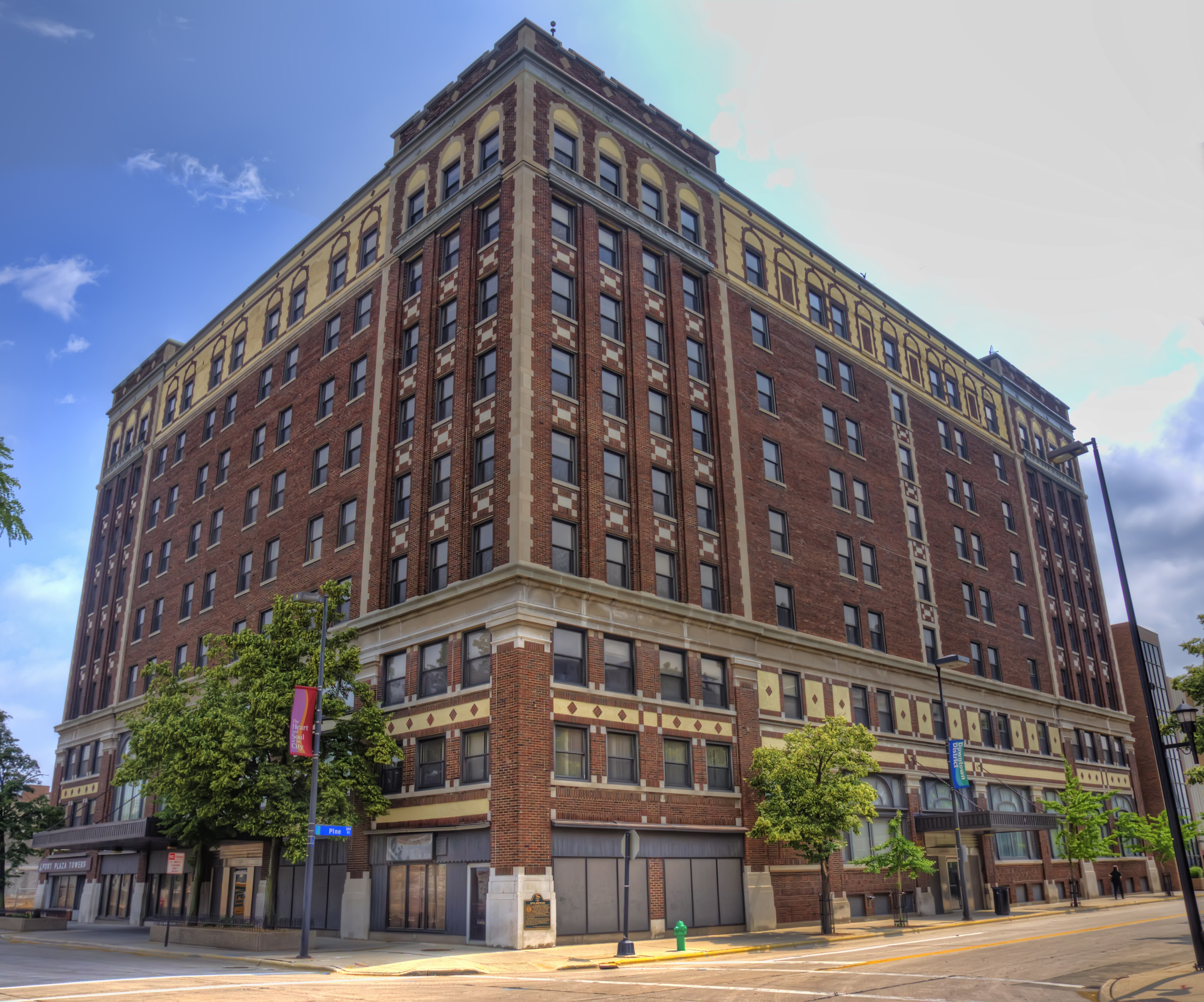 Historic Hotel Northland located at 300-308 N Adams Street in downtown Green Bay, Wisconsin.